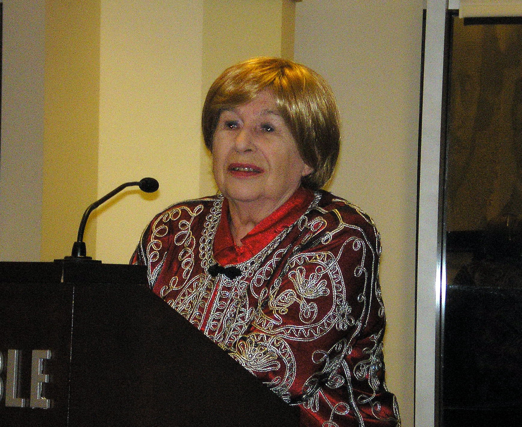 M. C. Beaton by David Shankbone, New York City